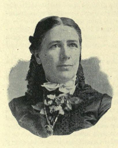 A portrait of Laura de Force Gordon used to illustrate publication of her talk at the 1892 World Columbian Exposition.